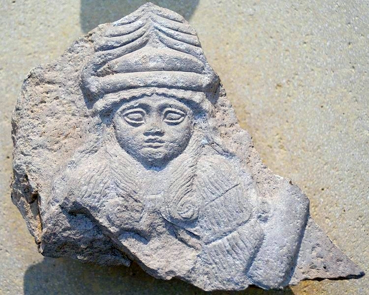 Bust of a goddess, perhaps Bau, wearing horned cap. Limestone, Neo-Sumerian period (2150-2100 BC). From Telloh, ancient Girsu.